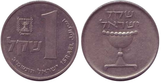 1 old Shekel coin - התשמ"ג